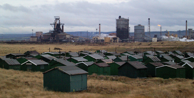 Fishermen's huts on South Gare In the background is one of Corus (now owned by Tata) steelworks, with a blast furnace on the left.